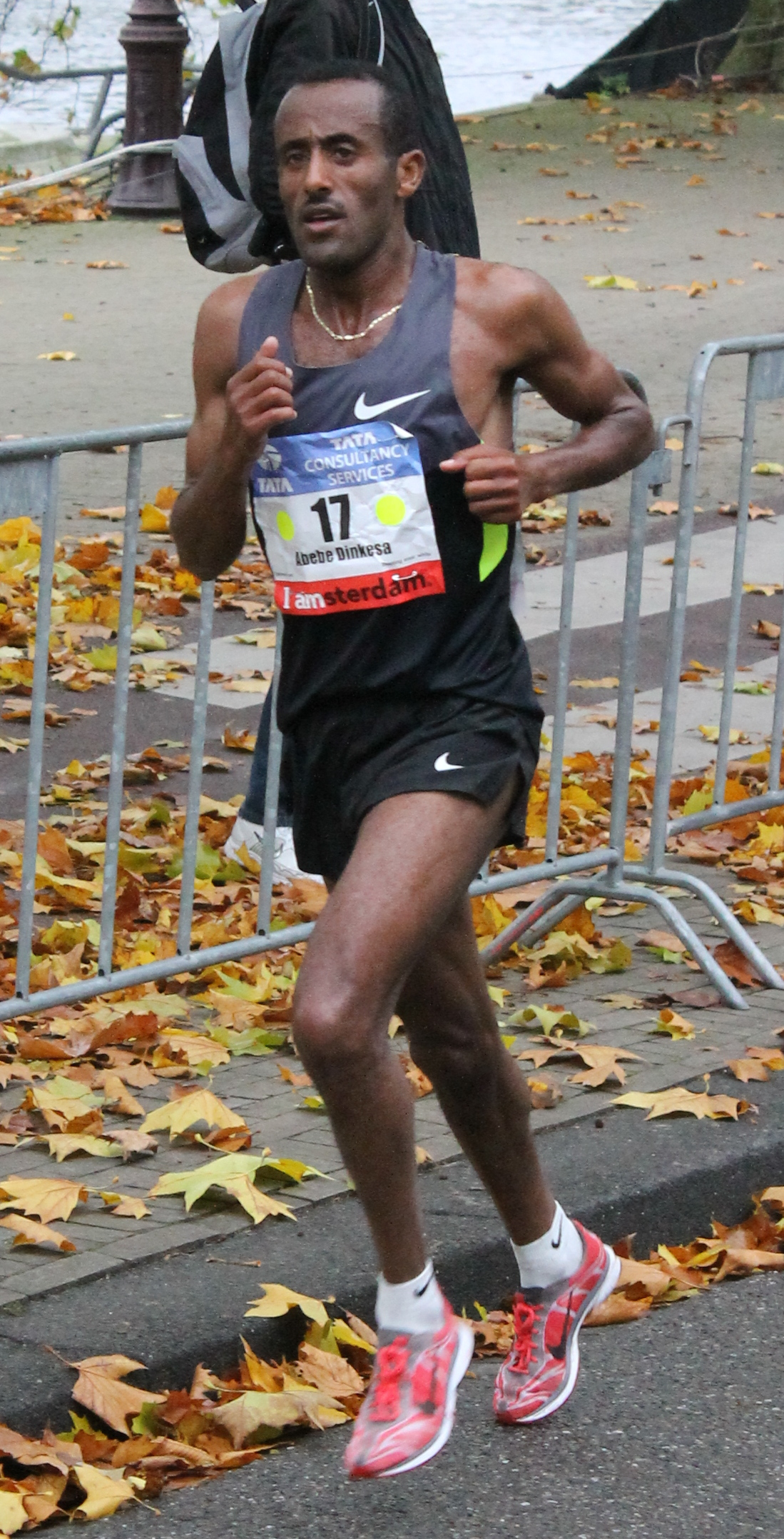 Abebe Dinkesa (ETH) during the 2012 Amsterdam Marathon.